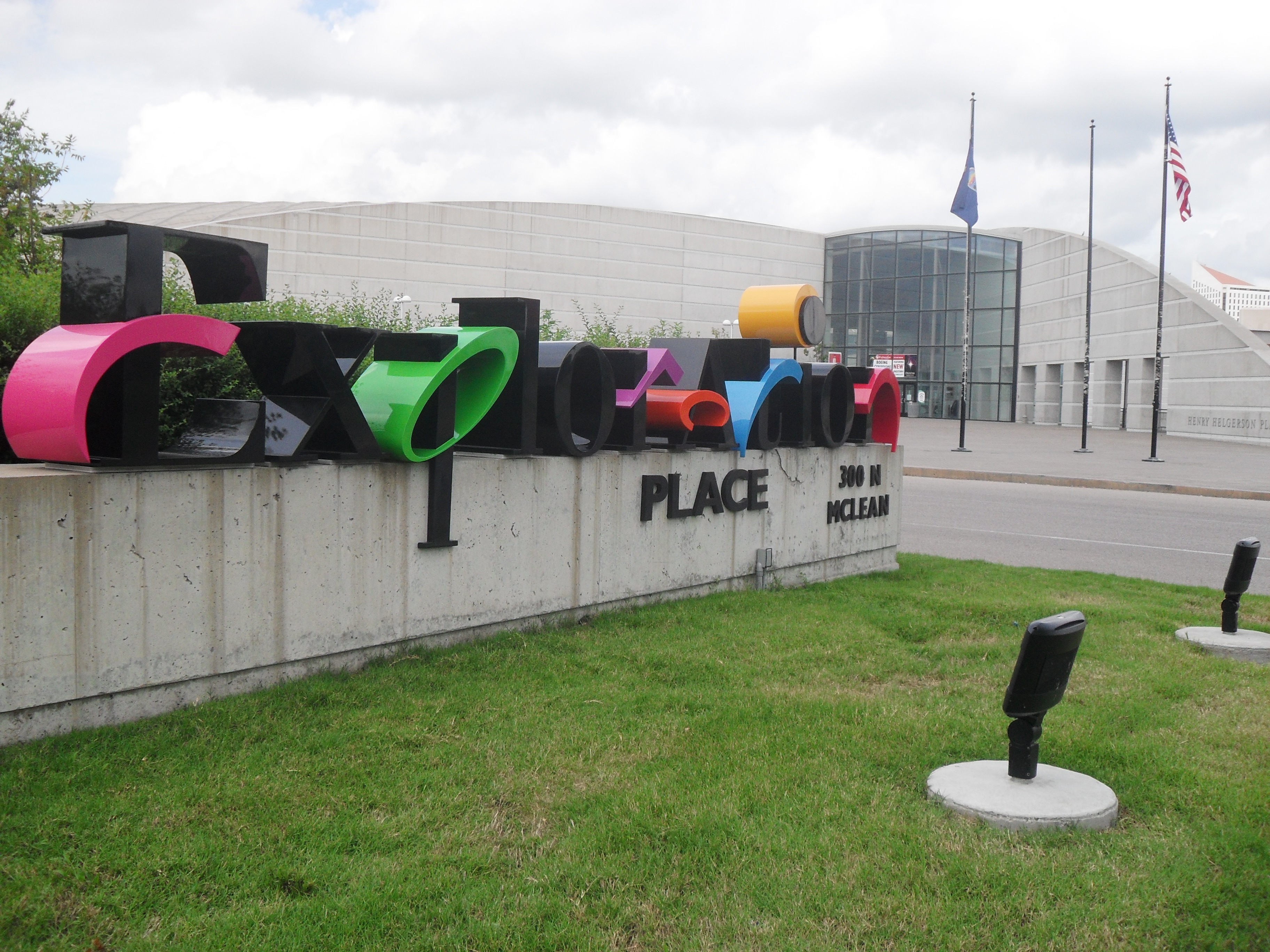 This is a view of the front of Exploration Place from the entrance at McLean Blvd.